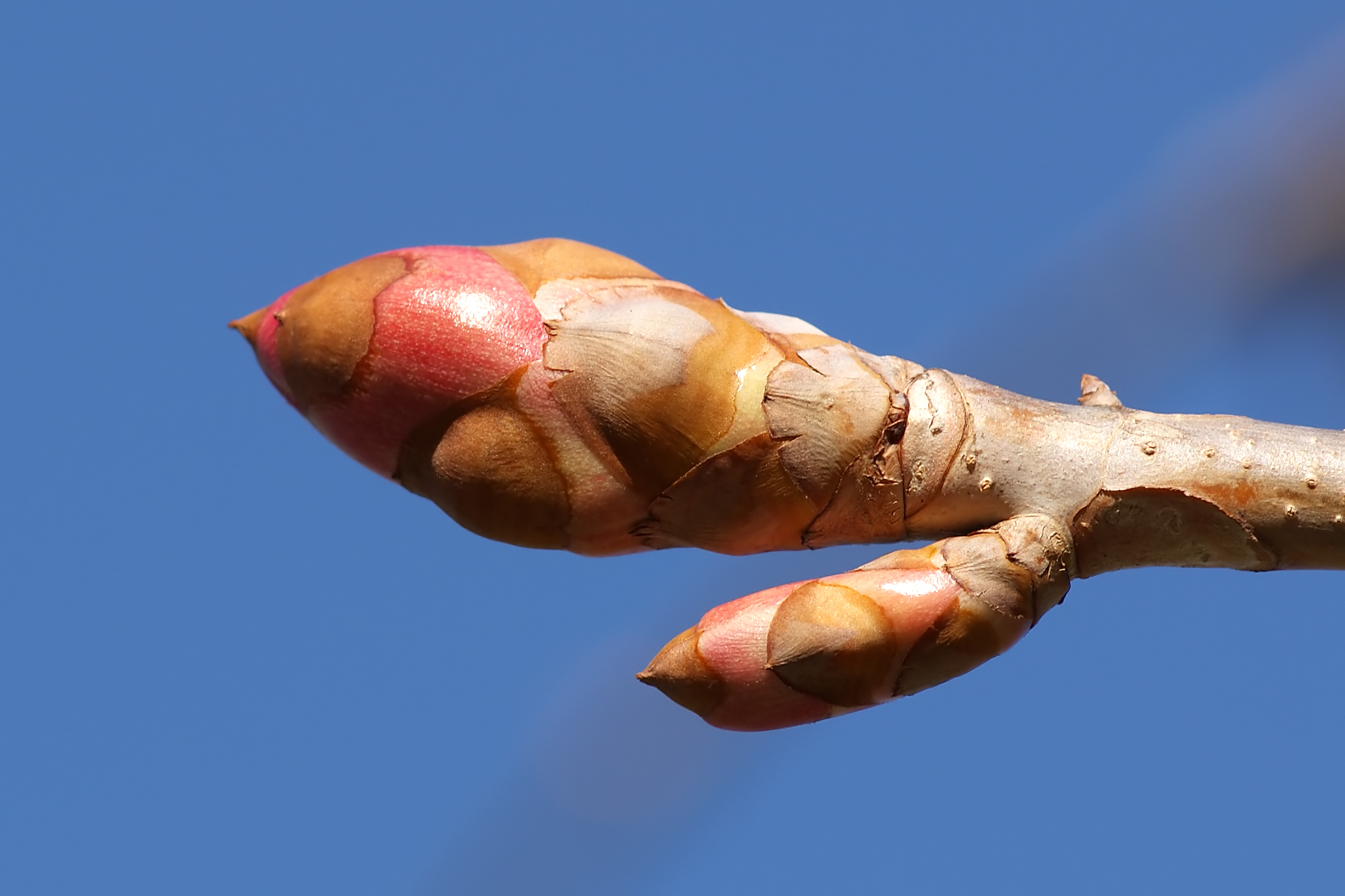 Magnolia bud